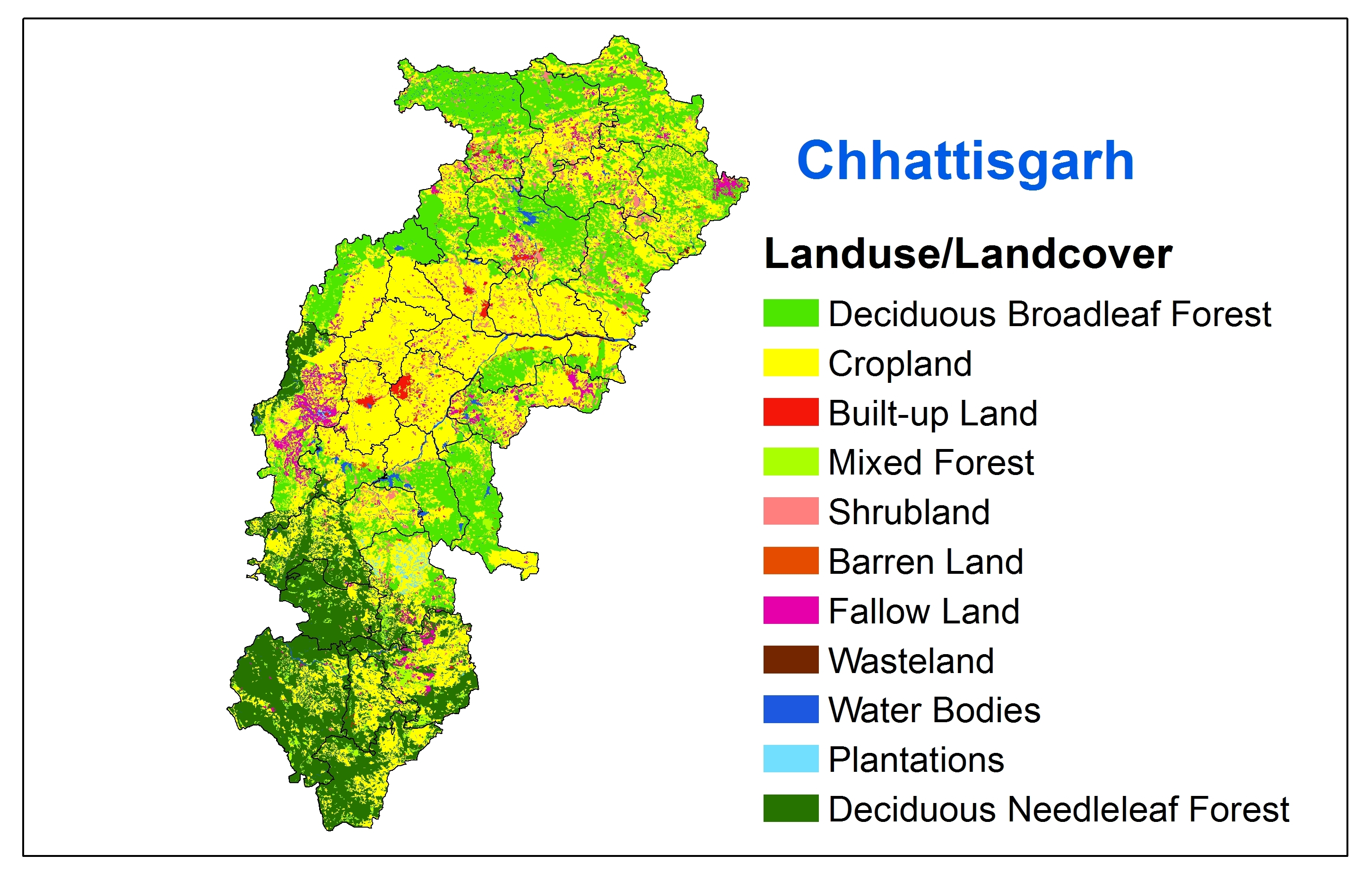 his data set provides land use and land cover (LULC) classification products at 100-m resolution for India at decadal intervals for 2005